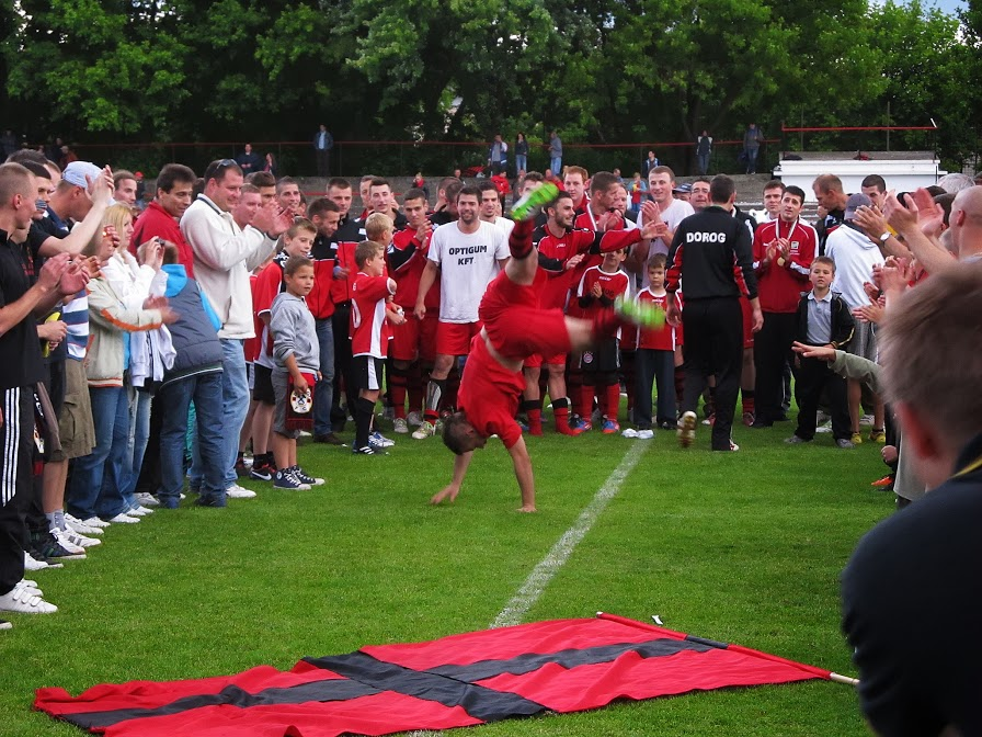 Celebration with Skita happy attraction